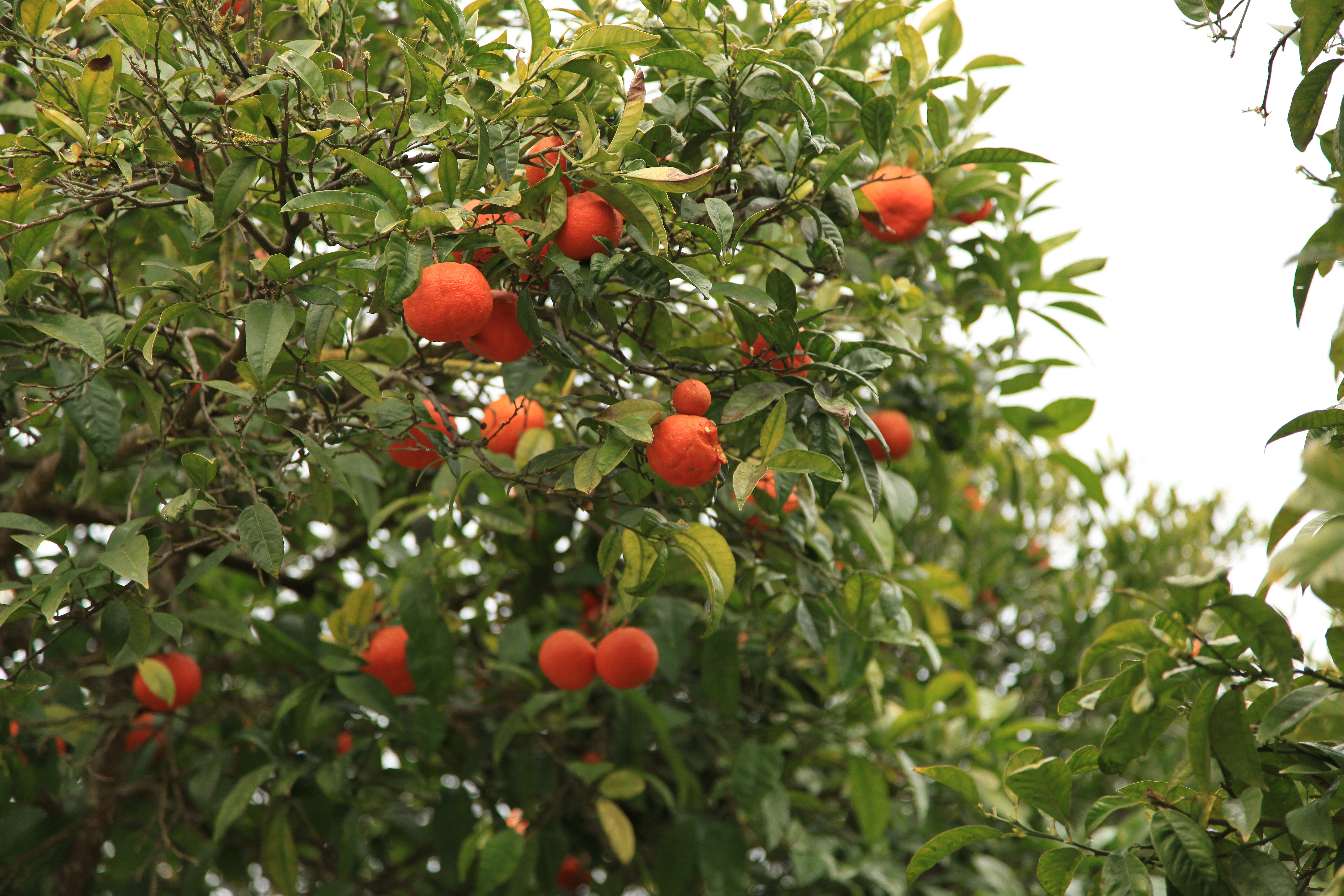 Buskett Gardens, Triq il-Buskett in Siġġiewi, Malta